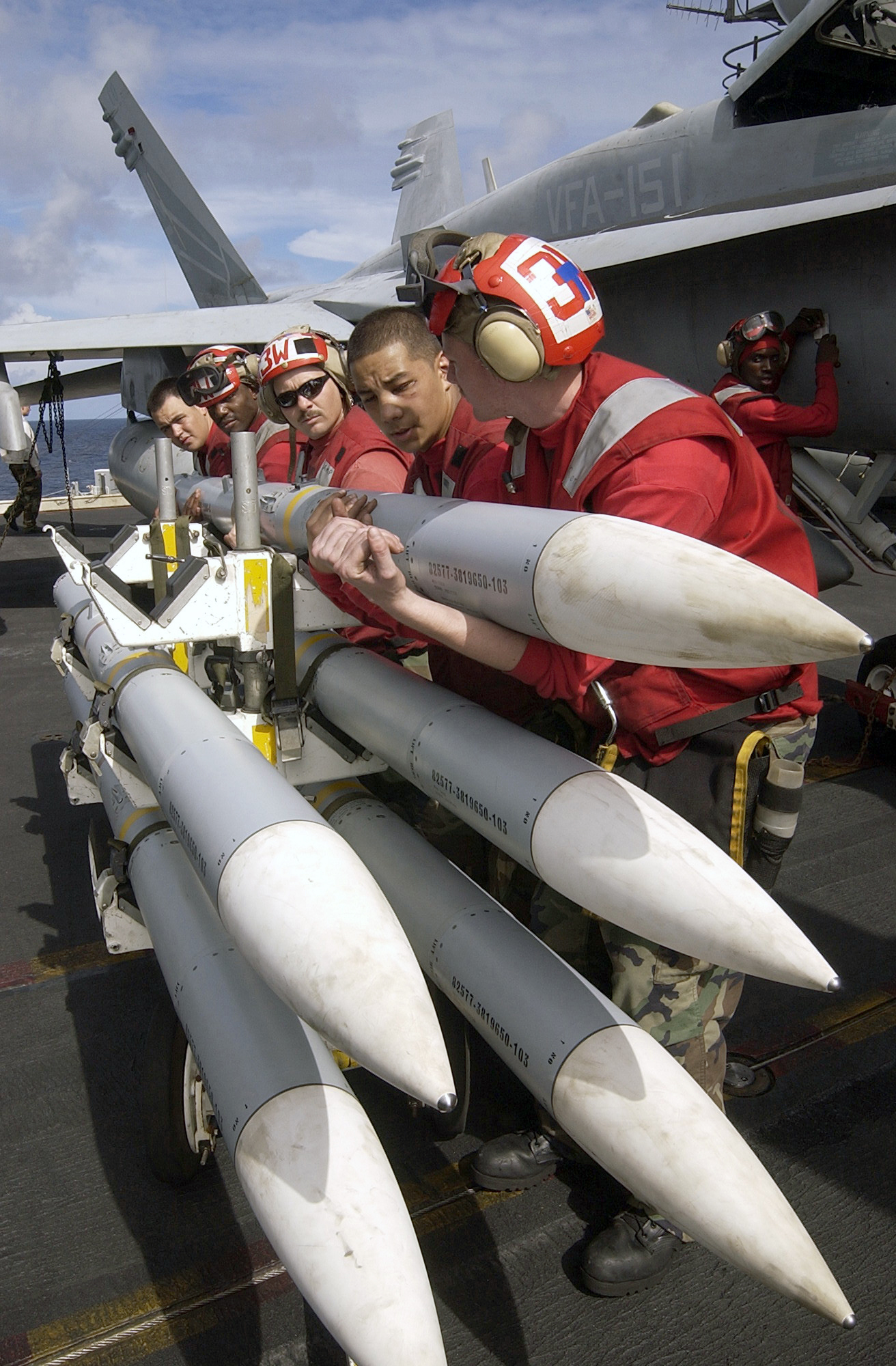 021129-N-4142G-085 At sea aboard USS Constellation (CV 64) -- (From the left) Aviation Ordnanceman 3rd Class William Cinco, Aviation Ordnanceman 3rd Class Bobby Rainwater, Aviation Ordnanceman 1st Class Phil Camp, Aviation Ordnanceman Airman Chris Rangel and Aviation Ordnanceman Airman Jeremy Roth of the “Fighting Vigilantes” assigned to Strike Fighter Squadron One Five One (VFA-151) prepare to install an AIM-120 Advanced Medium-Range Air to Air Missile (AMRAAM) on to an F/A-18 “Hornet.” VFA-151 and Constellation are currently on a regularly scheduled six-month deployment conducting combat missions in support of Operation Enduring Freedom.